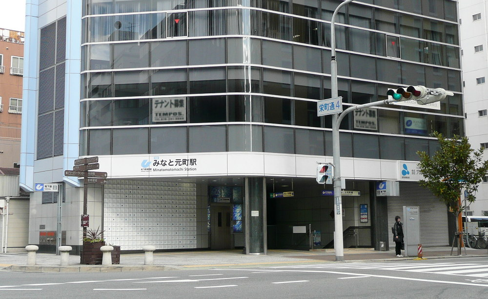 Kobe Municipal Subway Minato-Motomachi Station